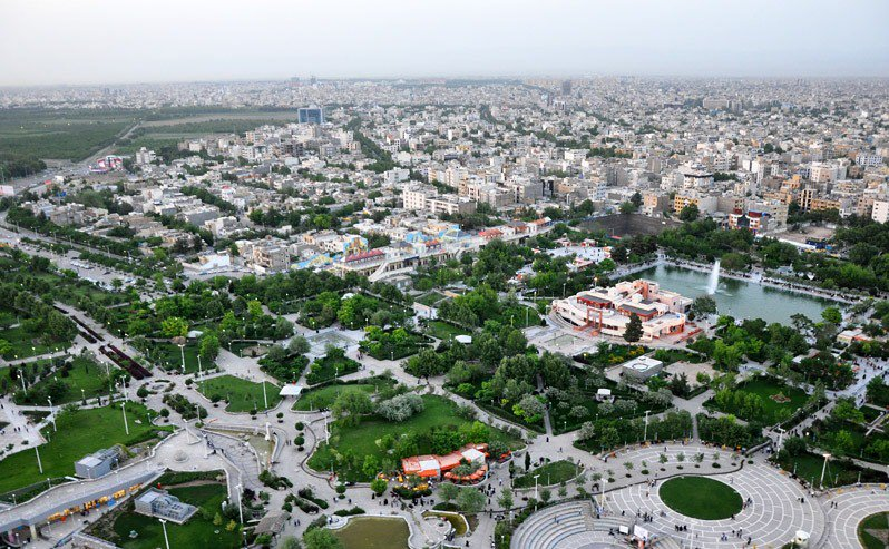 Mashhad City